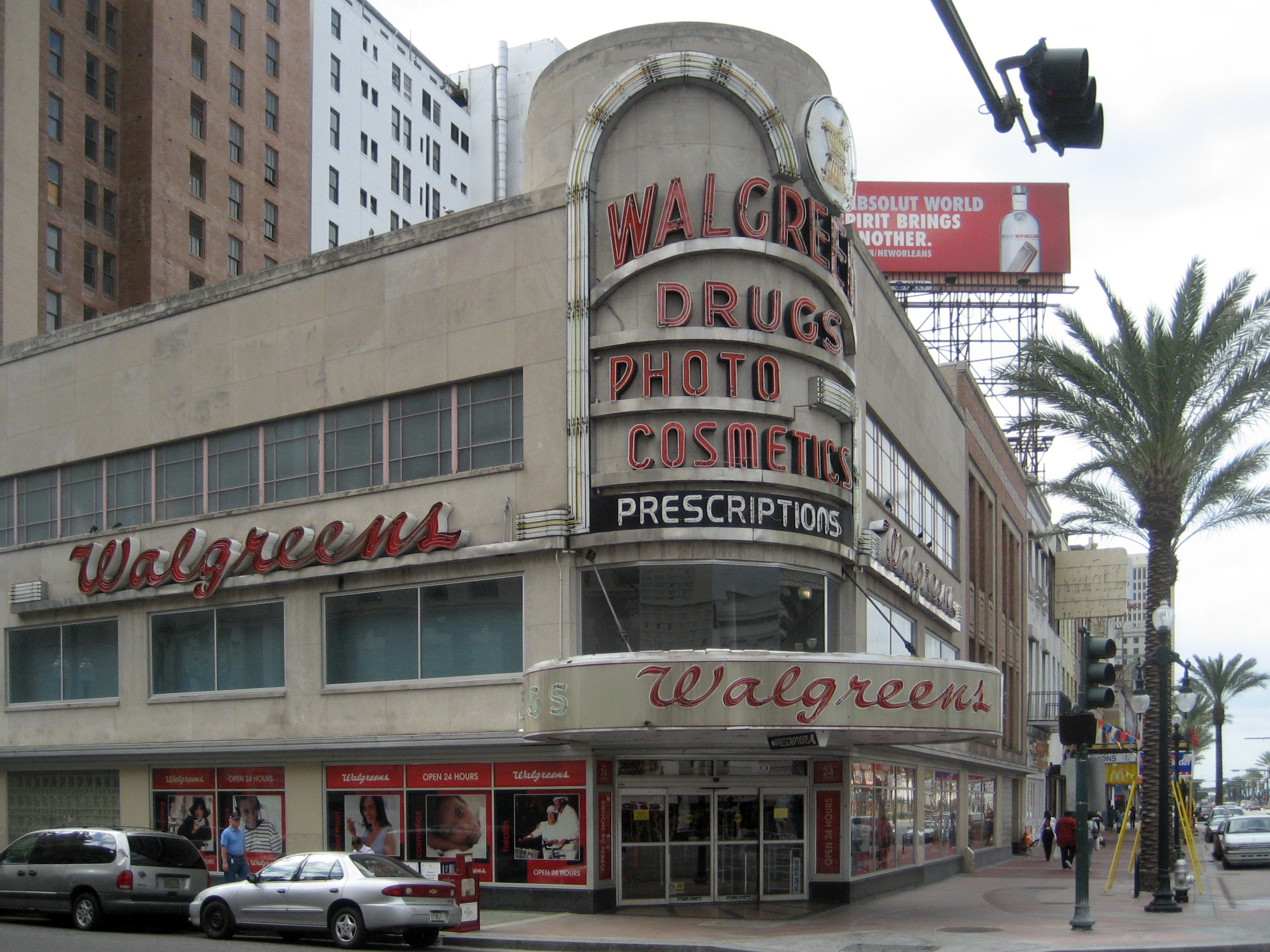 New Orleans: Canal Street, Central Business District. Walgreens drugstore with landmark "art deco" neon.